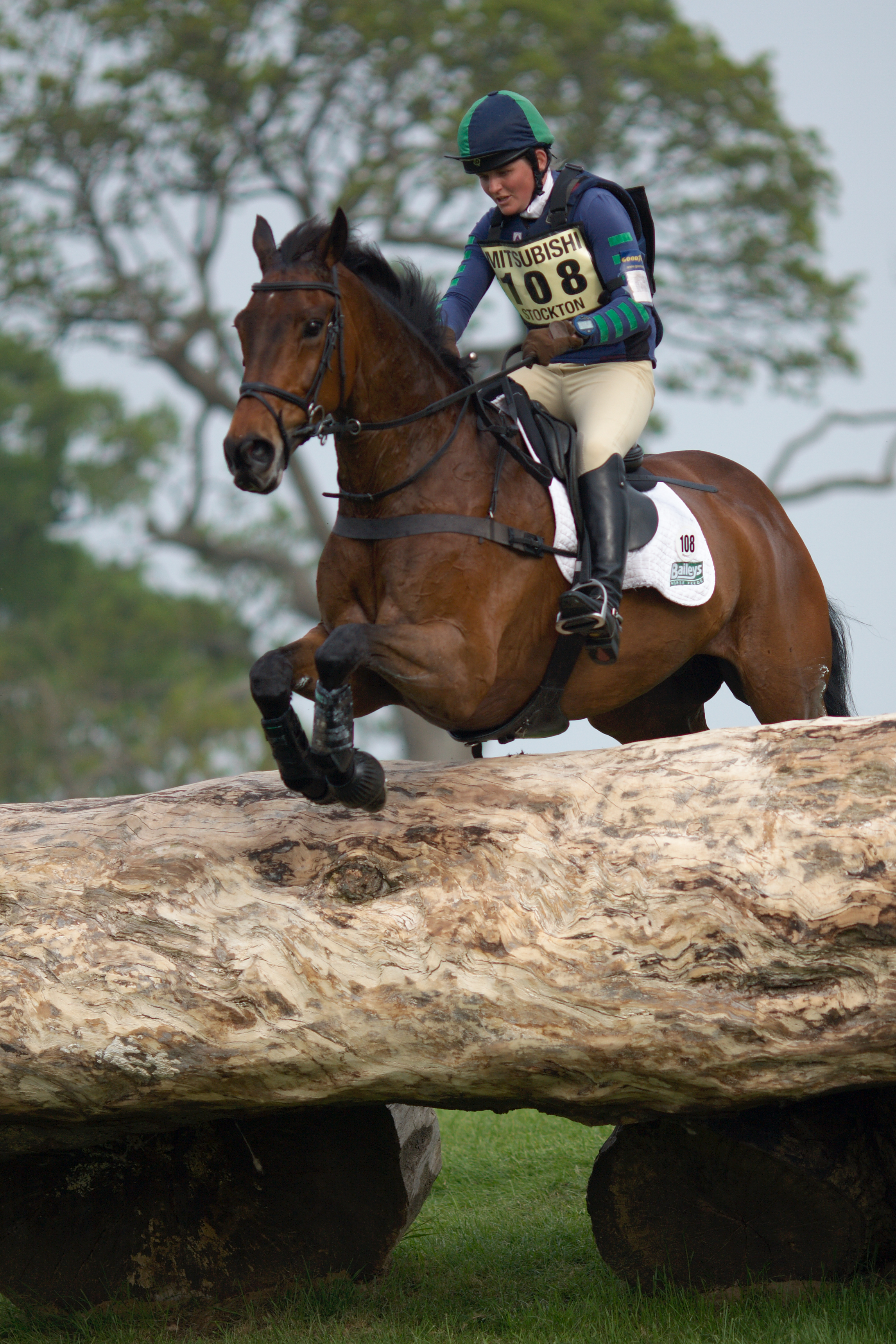 Polly Stockton and Westwood Poser at the Quarry during the cross-country phase of Badminton Horse Trials 2011.